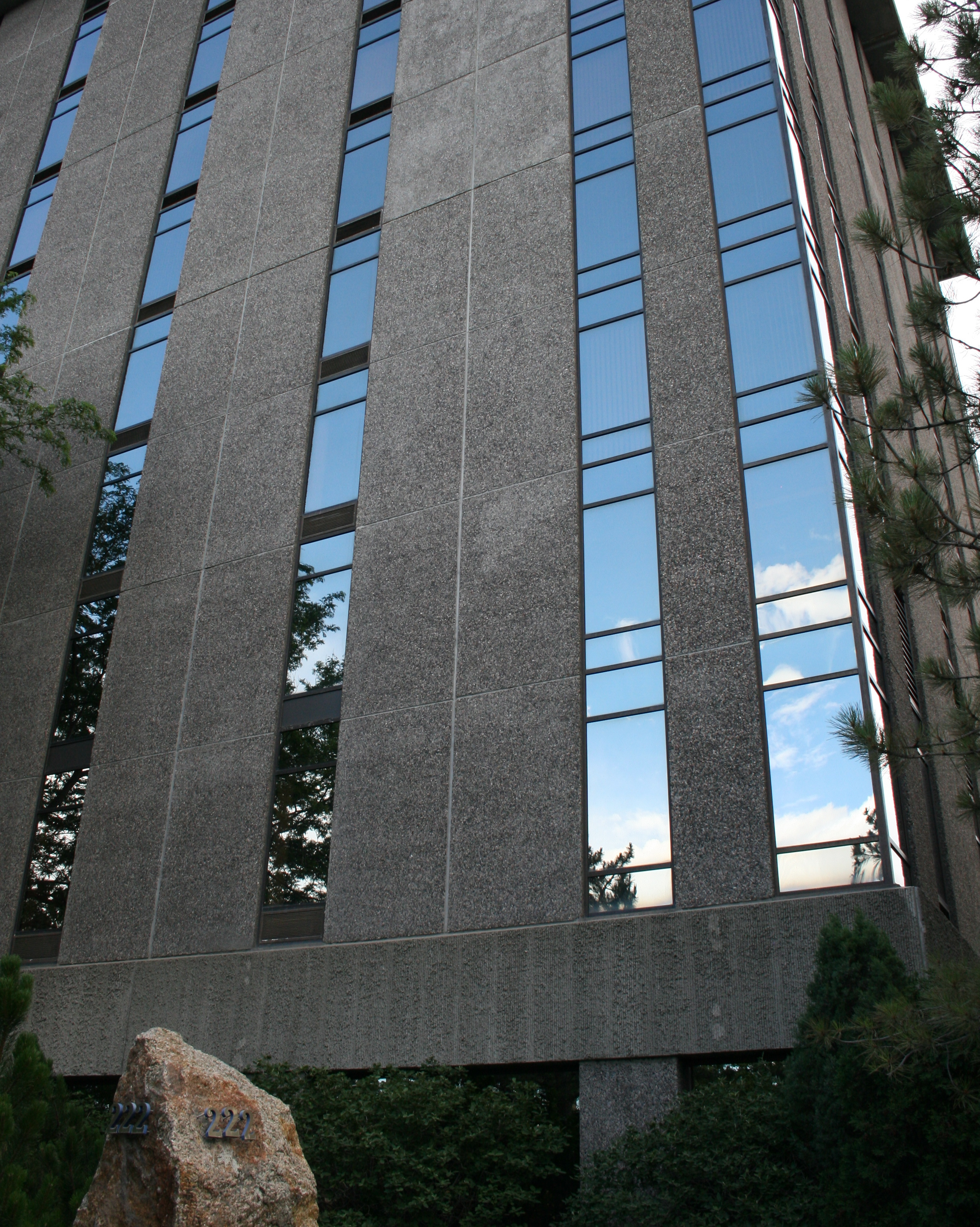 Granite Tower 3rd and 32nd downtown